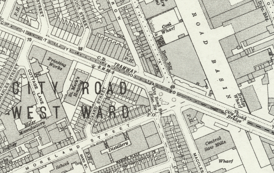 Ordnance Survey map showing City Road station on the City and South London Railway. Original map scale: 25 inches to One Mile/880 feet to One Inch.